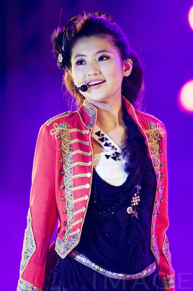 Selina (from S.H.E) performing at Stadium Merdeka in Kuala Lumpur, Malaysia on December 1, 2007 for S.H.E's Perfect 3 Tour.